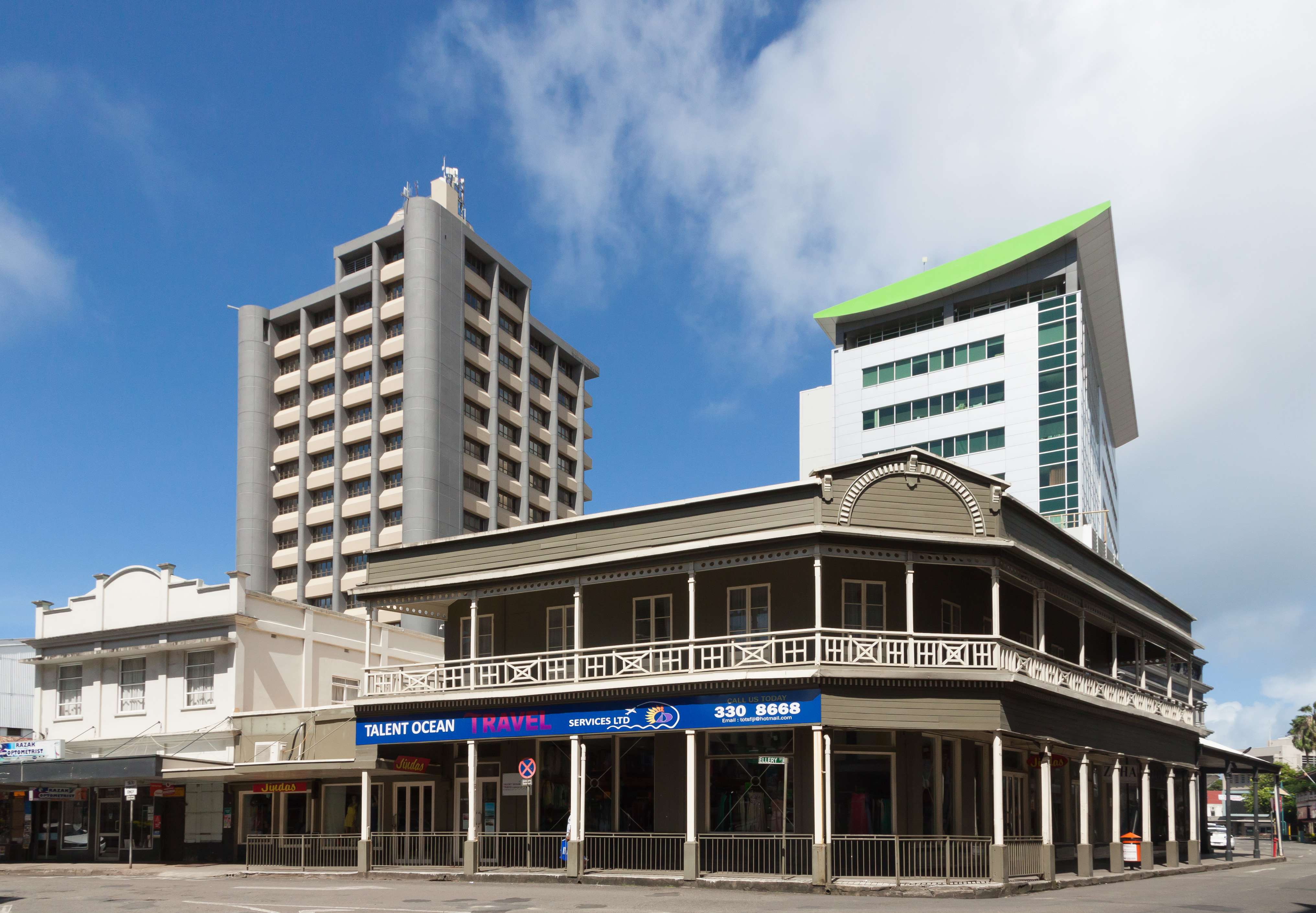 Suva City